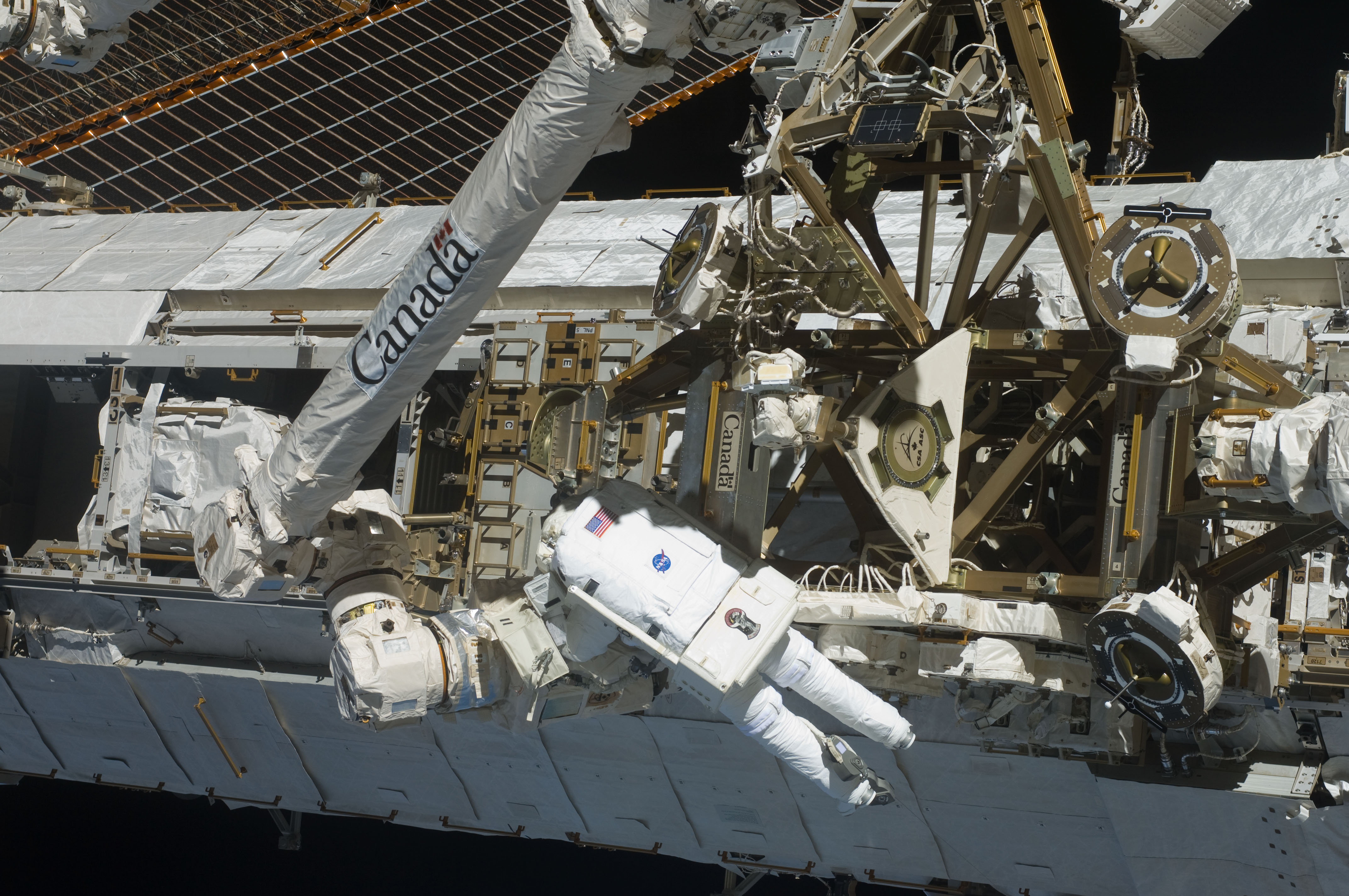 Astronaut Robert L. Satcher Jr., STS-129 mission specialist, participates in the mission's third and final session of extravehicular activity (EVA) as construction and maintenance continue on the International Space Station. During the five-hour, 42-minute spacewalk, Satcher and astronaut Randy Bresnik (out of frame), mission specialist, removed a pair of micrometeoroid and orbital debris shields from the Quest airlock and strapped them to the External Stowage Platform #2, then moved an articulating foot restraint to the airlock, and released a bolt on a starboard truss ammonia tank assembly (ATA) in preparation for an STS-131 spacewalk that will replace the ATA.